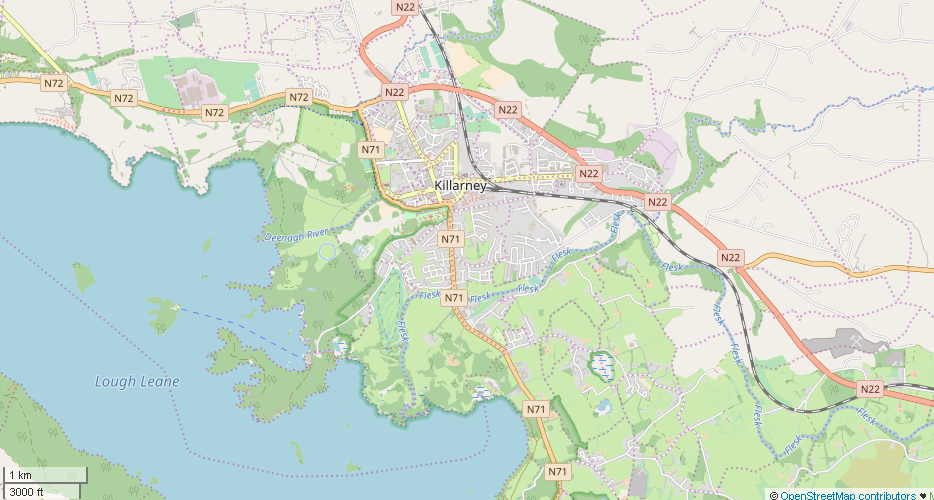 Map of Killarney